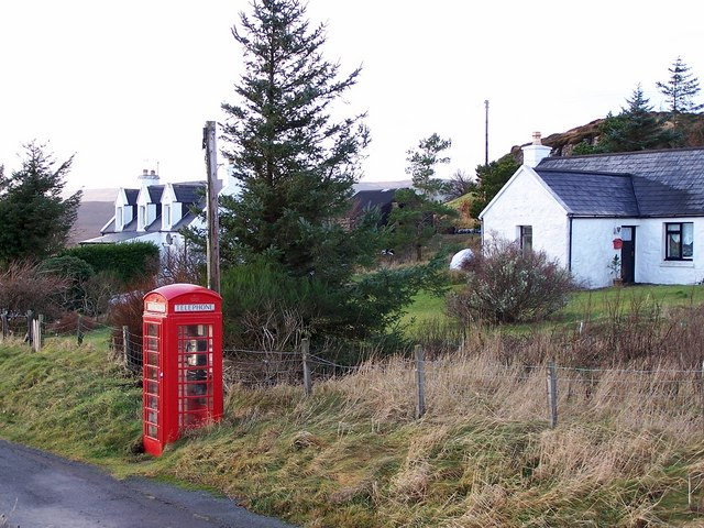 Smart phone box in Flashader